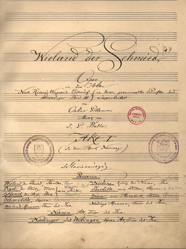 Ján Levoslav Bella: Wieland der Schmied (opera), piano reduction, first page of the manuscript